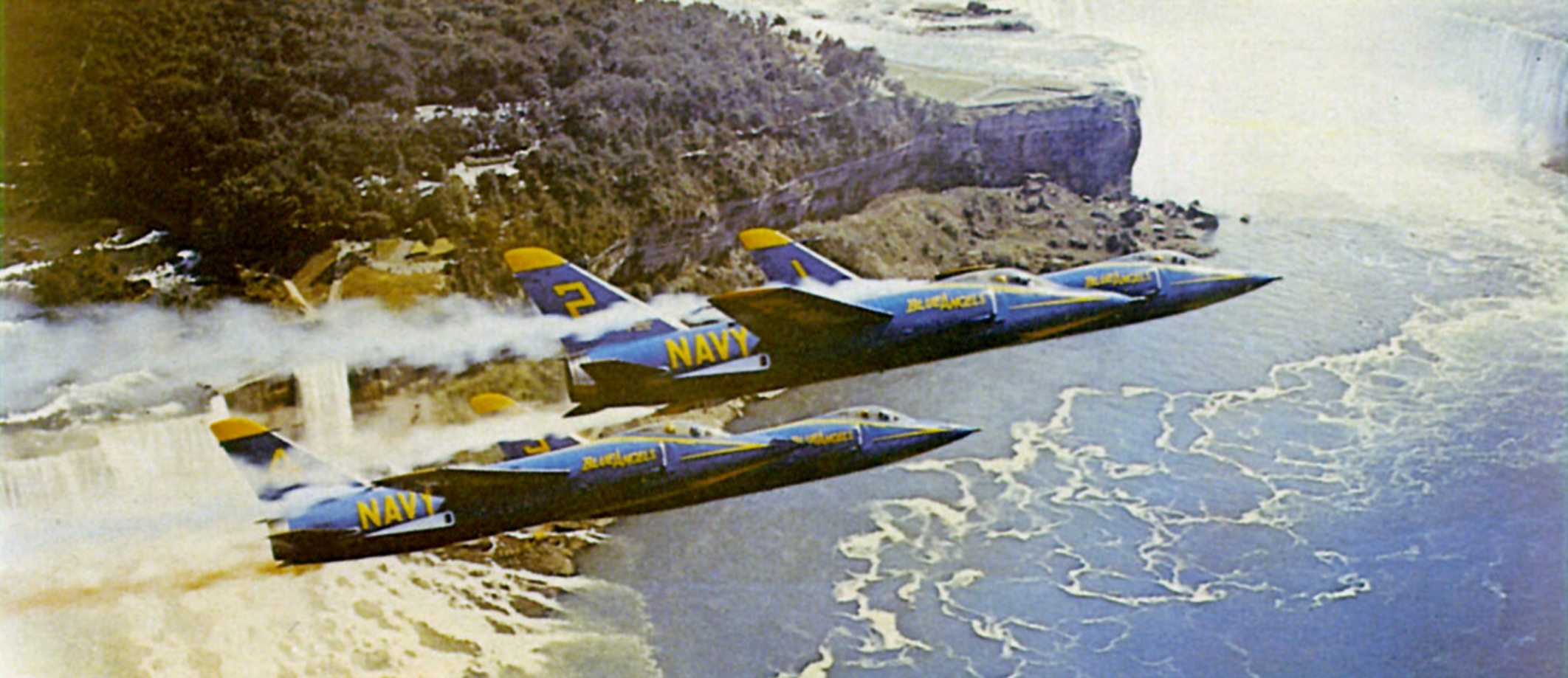 U.S. Navy Grumman F11F-1 Tiger fighters from the "Blue Angels" aerobatics team, flying over the Niagara Falls, New York (USA). The "Blue Angels" originally flew the F11F "short nose" version.